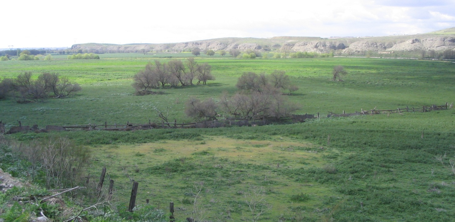 Area of the Manzanares river (Madrid), Spain